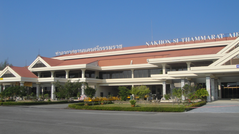 Nakhon Si Thammarat Airport, Terminal.